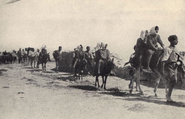 "In 1922-23 Near East Relief evacuated 22,000 children from ophanages in interior Turkey to Syria and Greece. These two pictures show part of the 5,000 children from Karput en route on donkey back and foot"